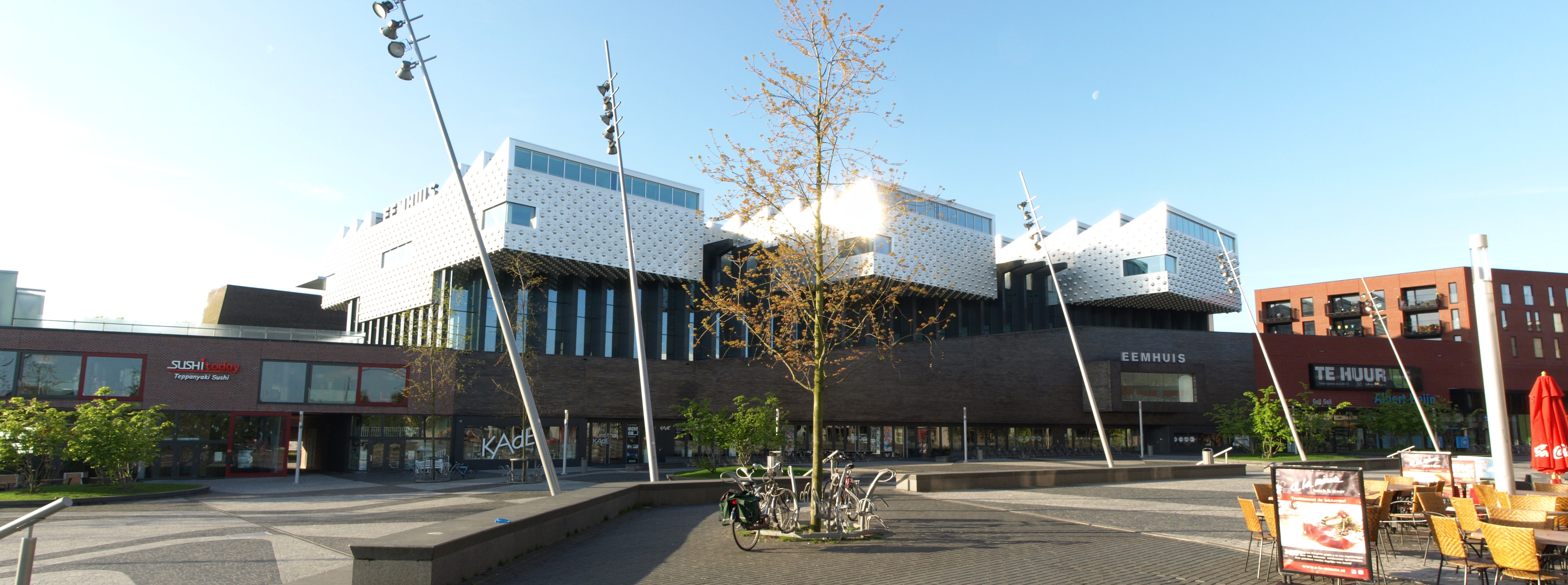 Eemplein and Eemhuis Amersfoort - seen from northern corner of Eemplein